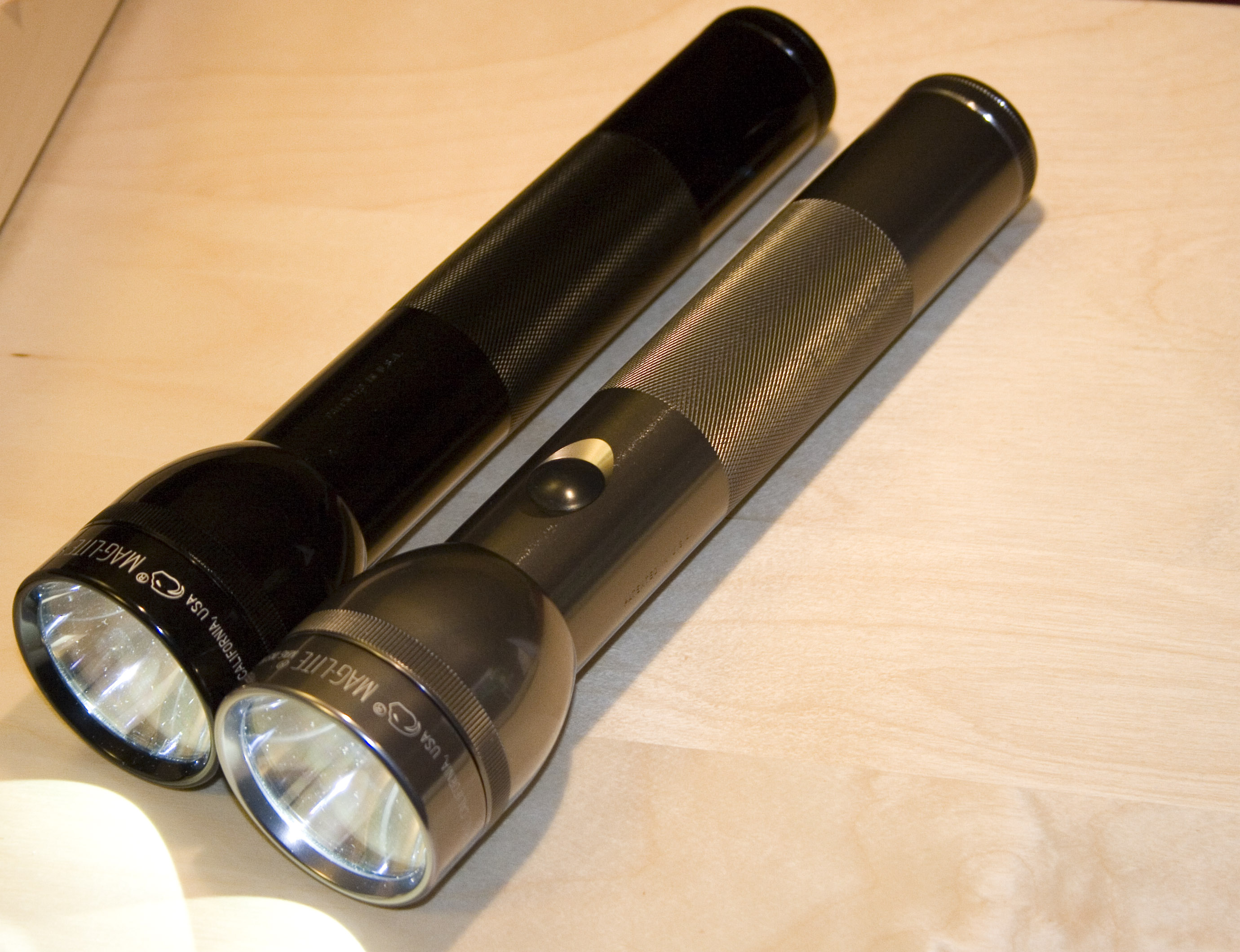 One Black and one Pewter MAG-LITE 2D LED flashlights. This model replaces the traditional incandescent bulb with a Luxeon 3-watt LED.